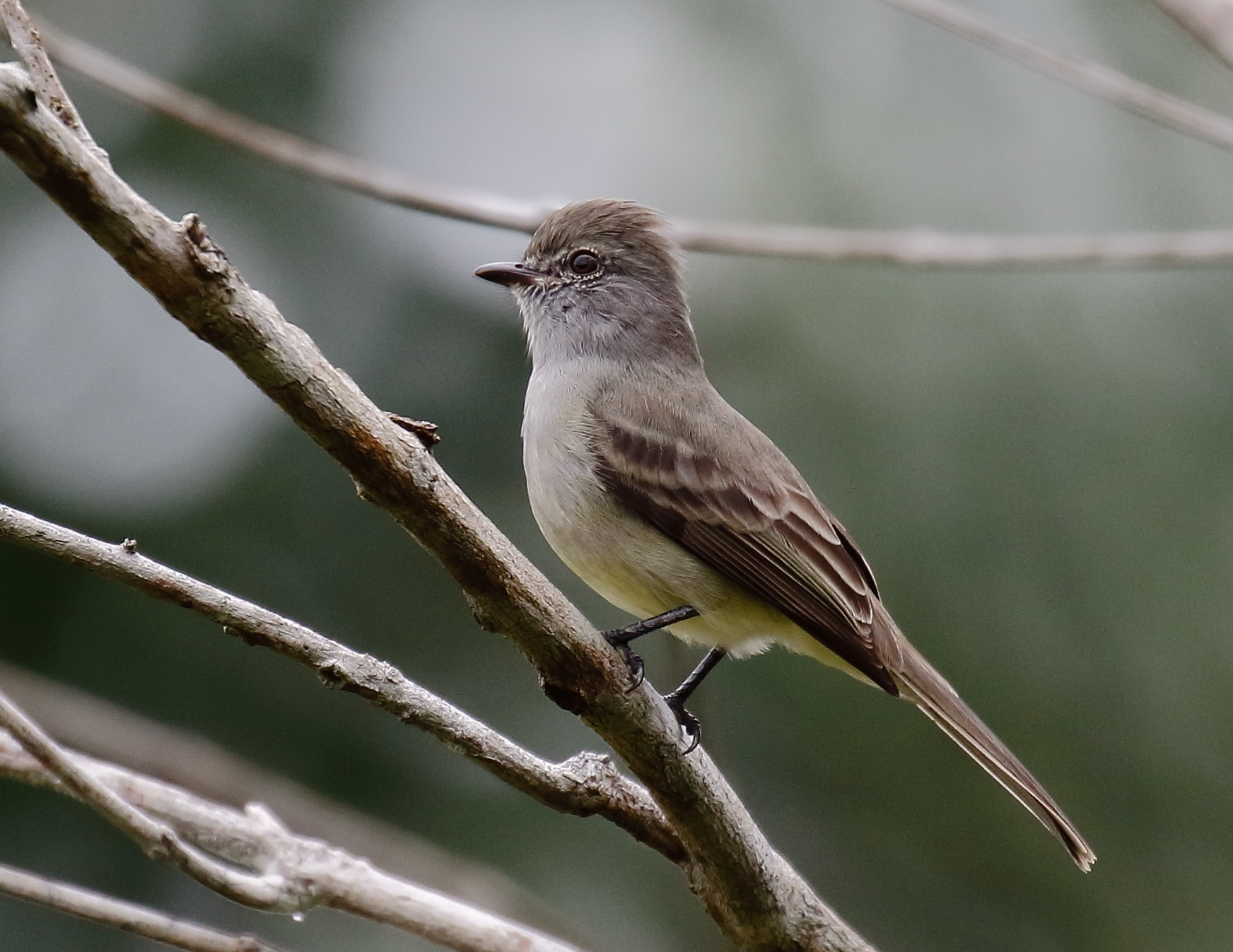 Todd's scrub-flycatcher at Presidente Figueiredo, Amazonas, Brazil